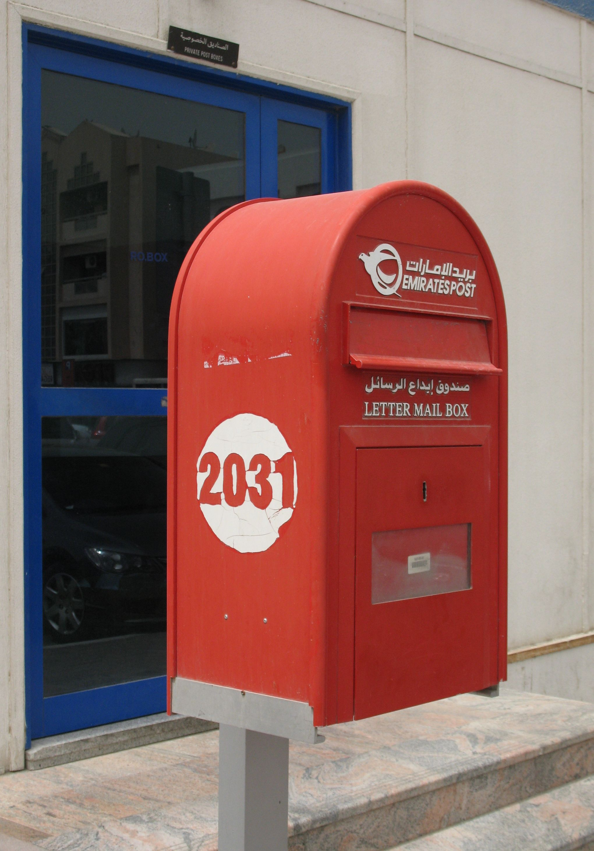 Post box in Al Satwa in Dubai, United Arab Emirates